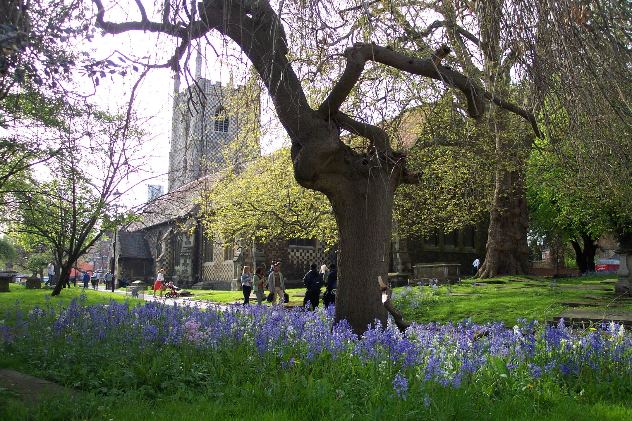 Reading Minster Church and its church yard and bluebells. For more information, see Reading Minster.